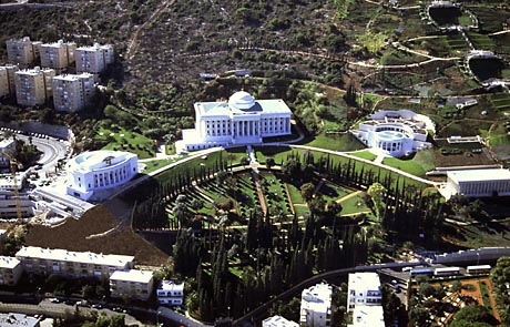 Aerial view of the Bahá'í­ World Centre buildings on Mt. Carmel, Haifa, Israel. Courtesy of the Bahá'í International Community